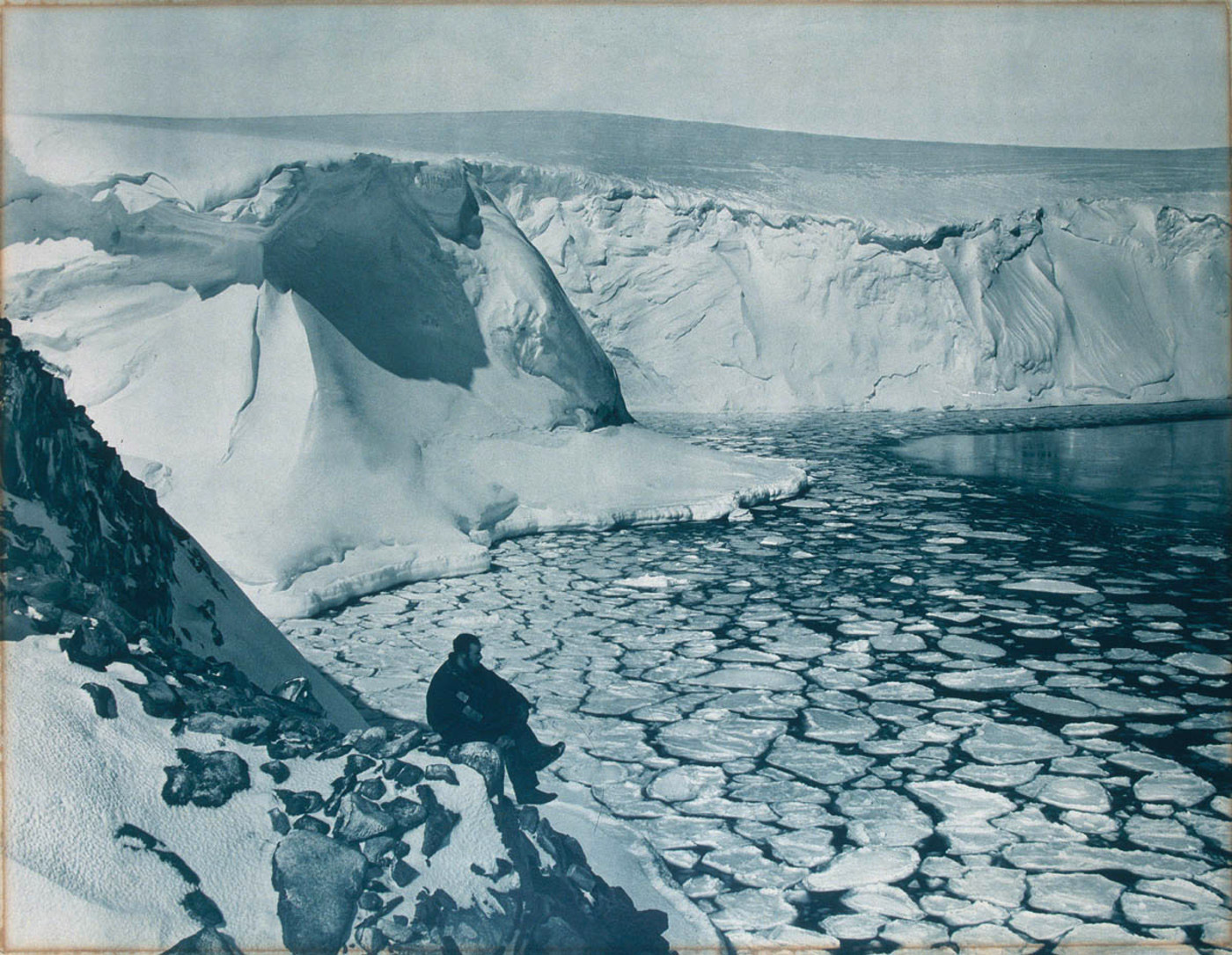 Format: Silver gelatin photoprint Notes: First Australasian Antarctic Expedition, 1911-1914 Frank Hurley visited the Antarctic six times between 1911 and 1932. For more information and pictures, visit Discover Collections: Hurley's Antarctica on the State Library of NSW's website: From the collections of the Mitchell Library, State Library of New South Wales Information about photographic collections of the State Library of New South Wales .au/search/SimpleSearch.aspx Persistenturl